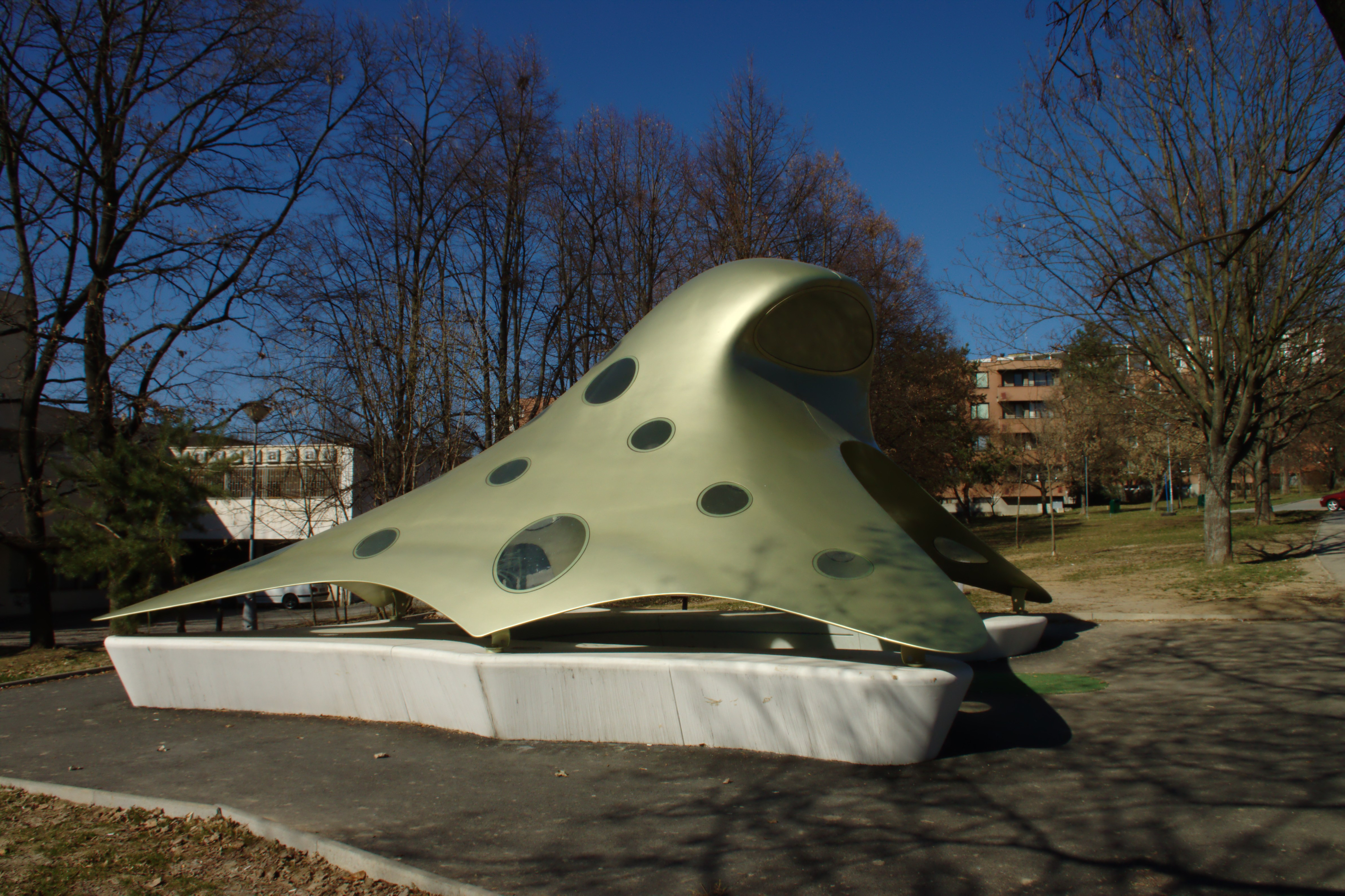 Bus shelter of the form of Kaplický library in Brno-Lesná